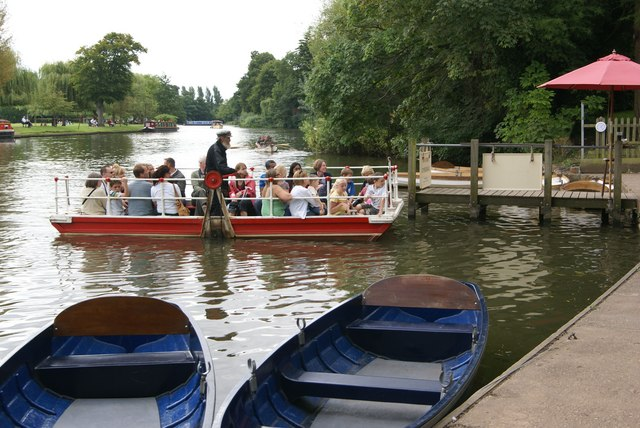 Muscle-powered ferry The historic chain-driven ferry across the River Avon in Stratford. The boatman cranks the red lever round, which engages a chain laid across the bed of the river to drive the boat. Pretty popular with summer tourists, as you can see.